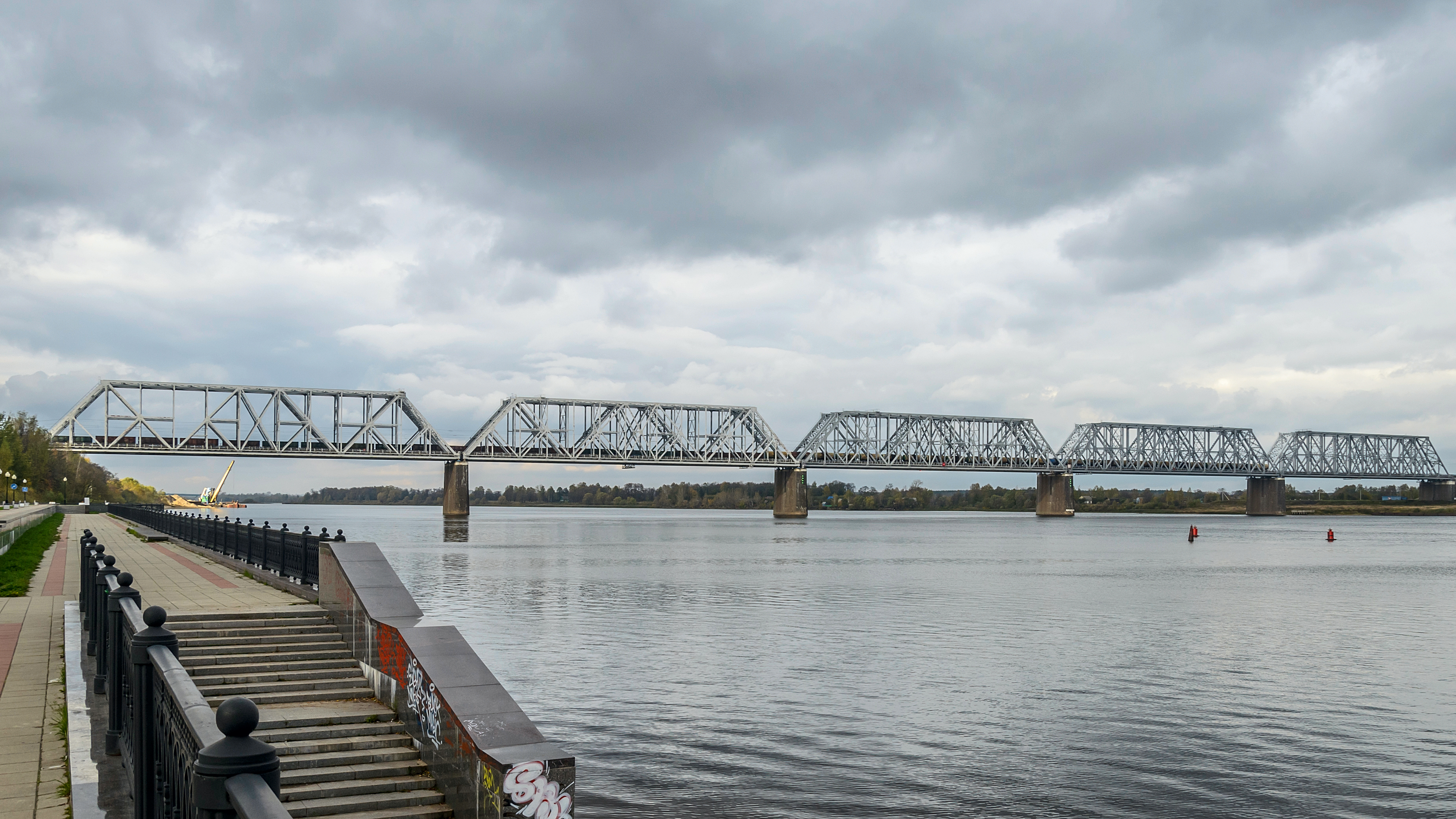 Railway Bridge of Yaroslavl